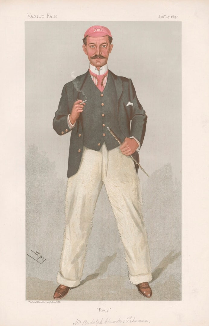 Caricature of Rudolf Chambers Lehmann - “Rudy”.